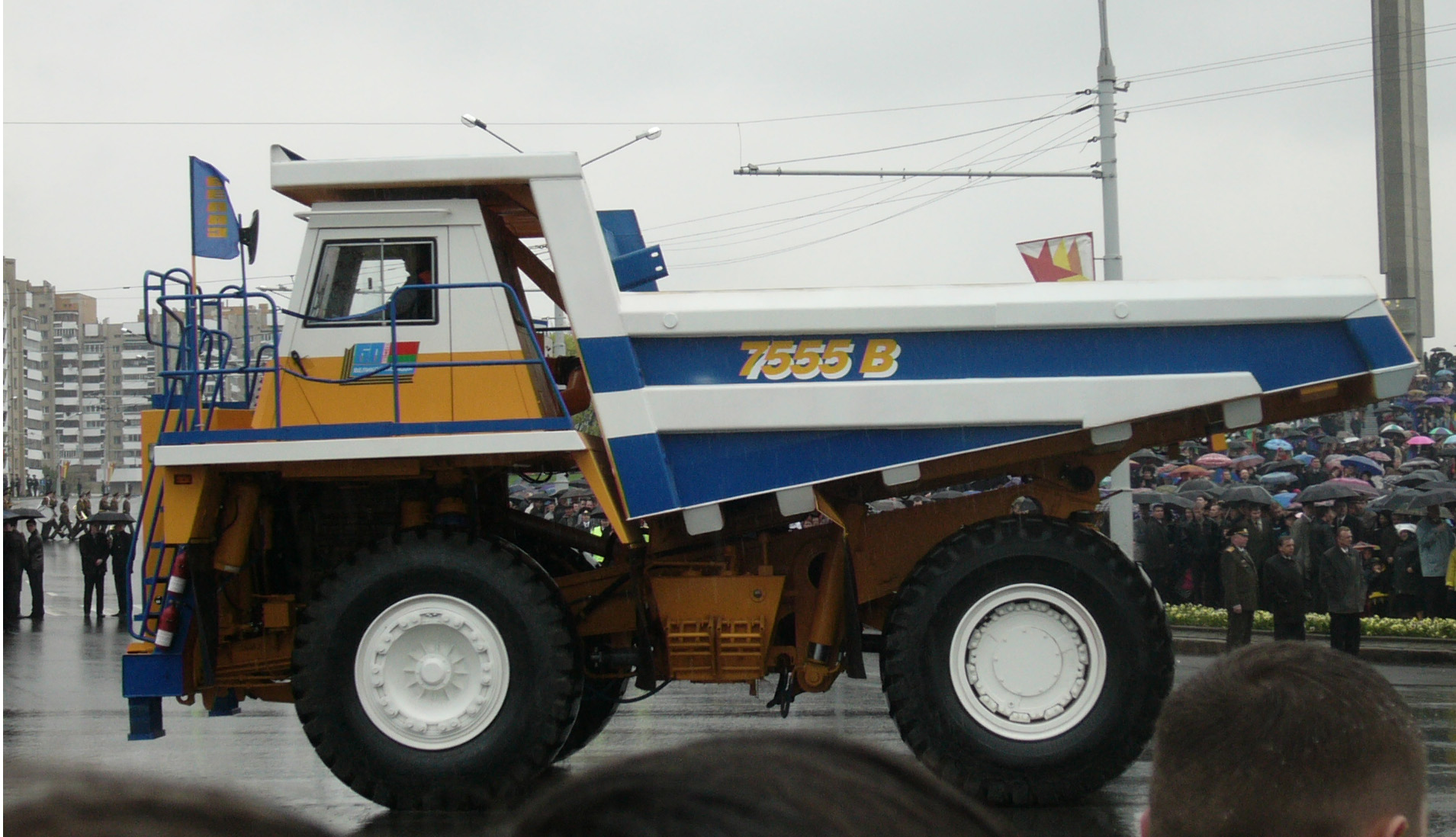 Belaz 7555 on Victory Day parade in Minsk